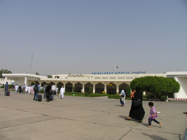 Photographed myself in 2006. Uploaded onto Wikipedia. Released into public domain